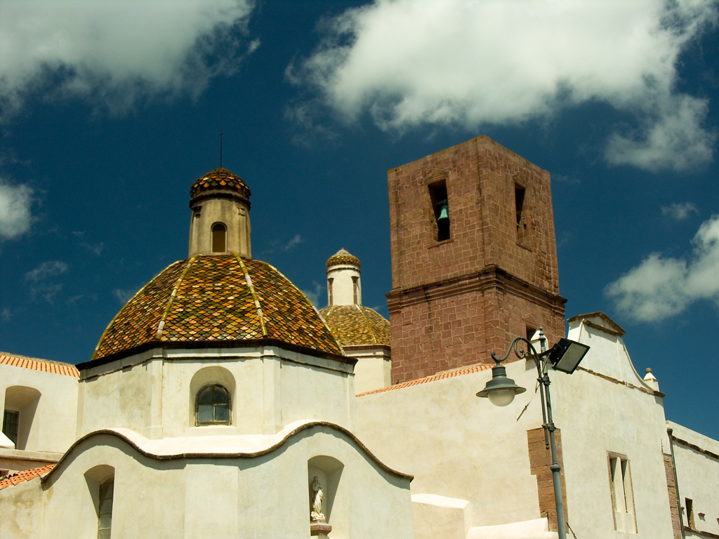 Such a stylish curvy church beside a very square church tower. The sky has only been boosted by a polarising filter